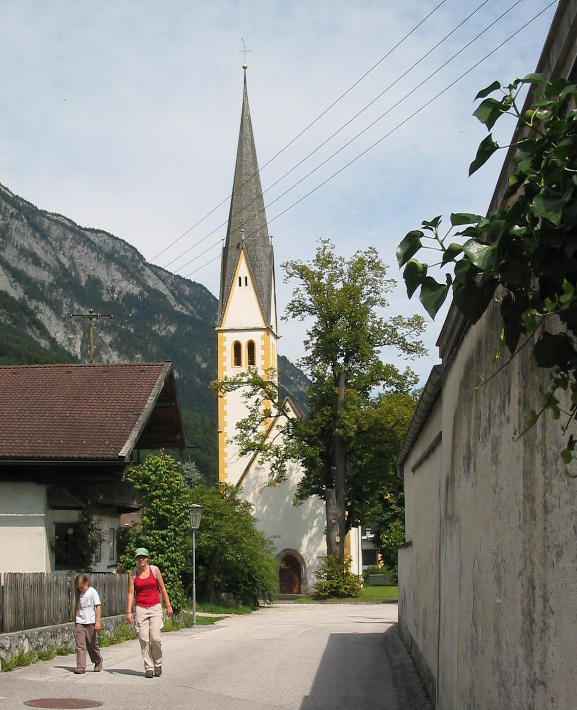 Stans, in the Tyrol, Austria. SS 'Laurentius' and 'Ulrich' church is the former parish church.